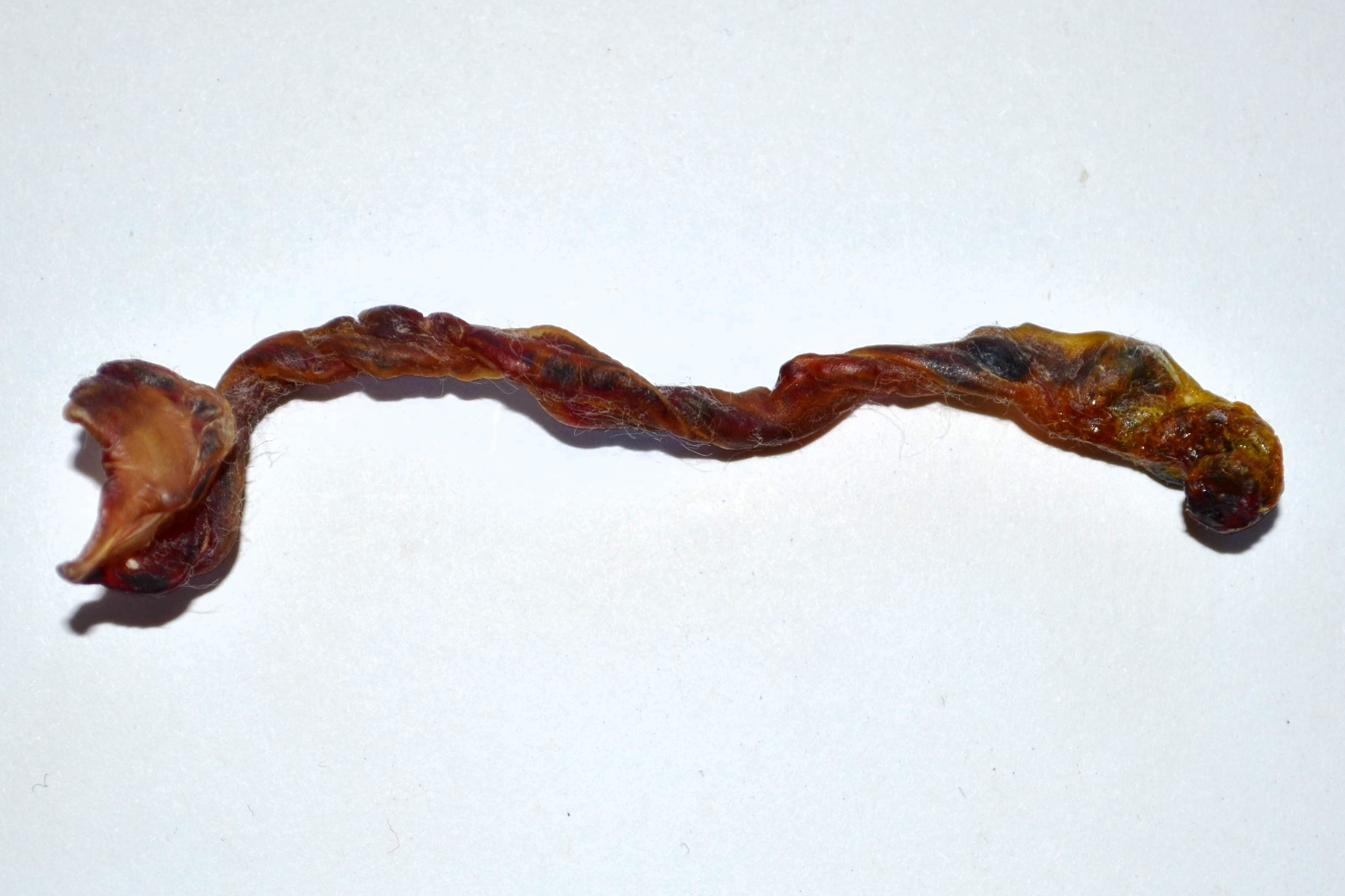 Cord blood allows to increase the possibility of treating many diseases, which nowadays it is possible to treat only with the transplantation of hematopoietic stem cells, those contained in the cord blood. There are many diseases that can be cured with these cells, some very serious, such as leukemia and tumors of the lymphatic system; but at the same time, even those affected by non-tumor diseases, such as thalassemia and bone marrow aplasia, or by the lack of blood cell production, can benefit. Biostaminalia is a cordon blood research institute with the most advanced and updated research techniques. This is a detached umbilical cord that separated from the baby after 6 days. It is 7 cm (2.75 inches) long. The left end (the wider of the two ends) is where the pliers were placed. The far right is where it connected to the baby.